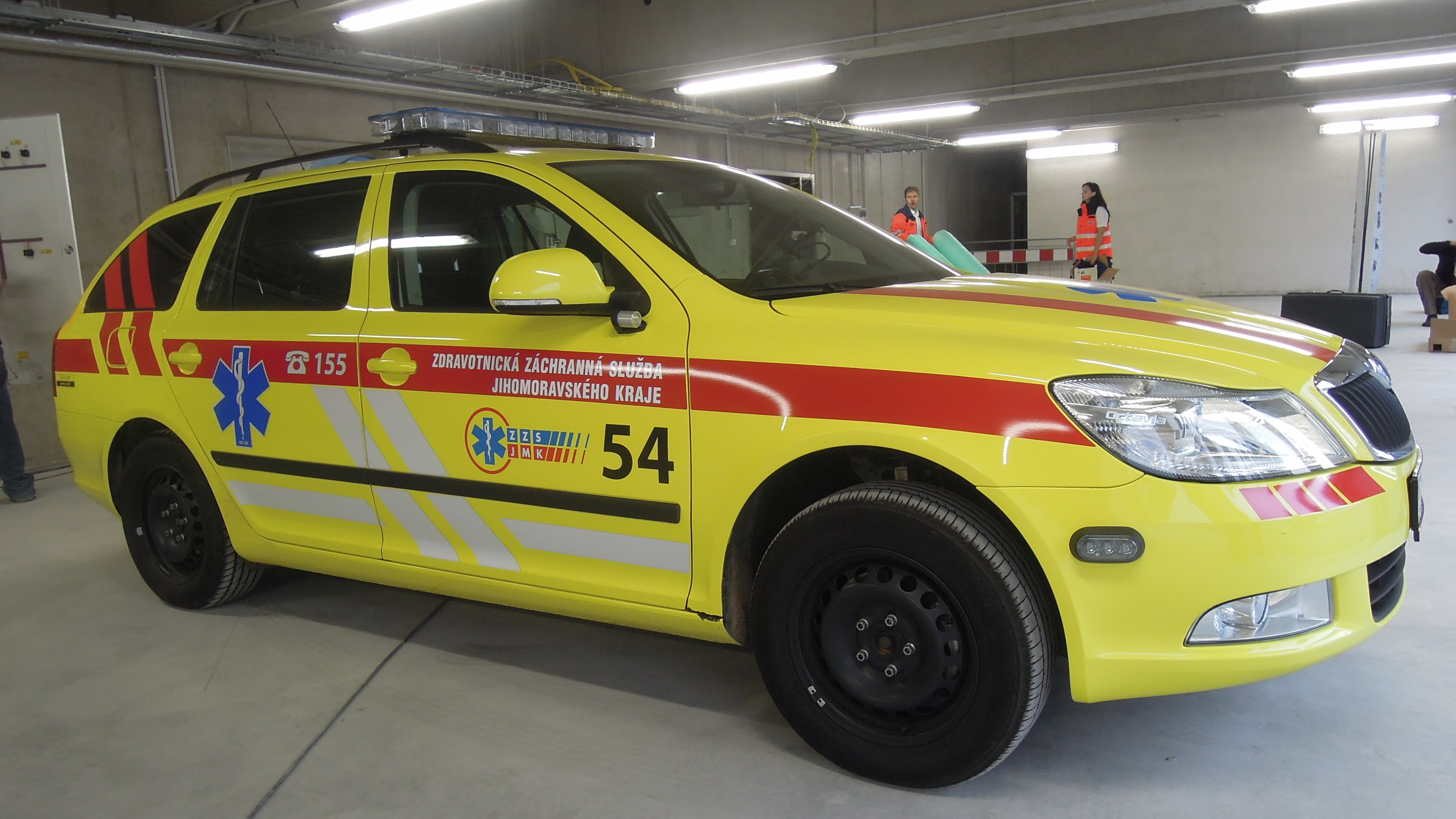 Škoda Octavia Combi ambulance of Zdravotnická záchranná služba Jihomoravského kraje in Brno, South Moravian Region, Czech Republic